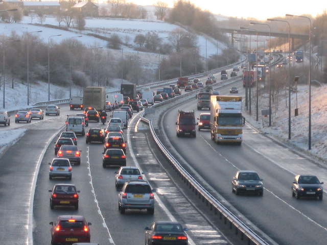 Early Morning on the M66. Looking South down the M66 from Junction 1 the early morning traffic starts to build up. The rush hour seems to get earlier and earlier as this picture was taken at 07:00 just after sunrise. 391972 looking North. Construction of this section of the M66 started in August 1975 and opened to traffic in May 1978. Source The Motorway Archive